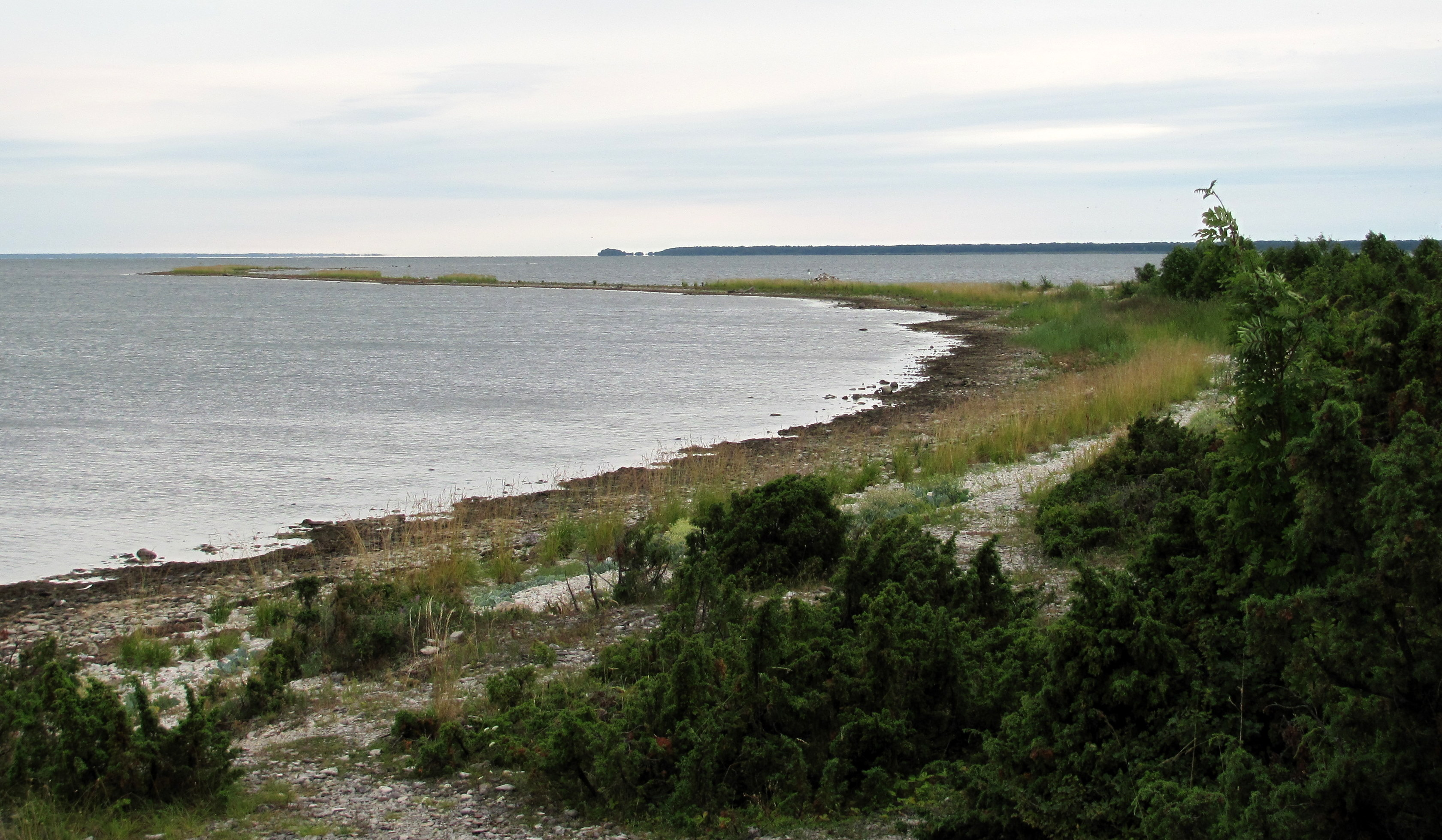 Sääretirp, peninsula in Kassari, Hiiu county.